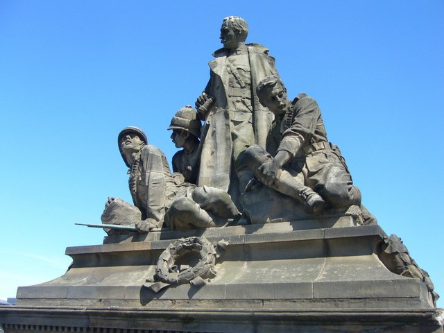 K.O.S.B. Memorial, North Bridge Memorial to soldiers of the King's Own Scottish Borderers who died in the South African War, 1900-1902.